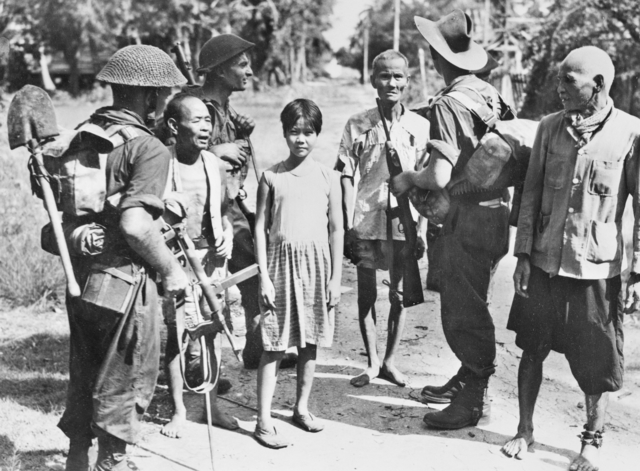 Australian soldiers and local civilians on Labuan Island, Borneo. The soldier on the right is armed with a US M1 Carbine, which was not normally issued to Australian soldiers.